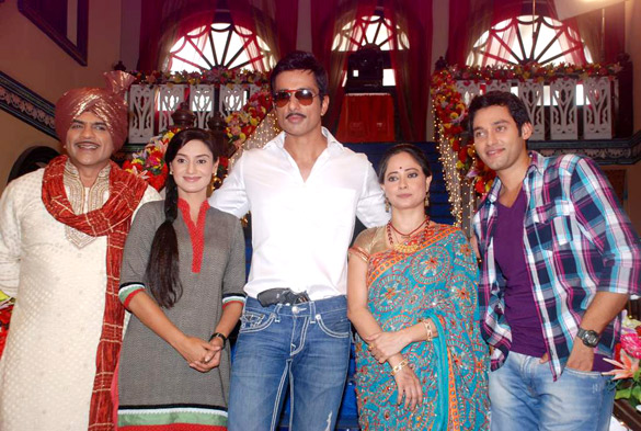 Sonu sood an indian actor on the set of Zee TV's daily soap Hiter didi to promote his film Maximum alongwith actress Sheeba Chaddha (in green saree)